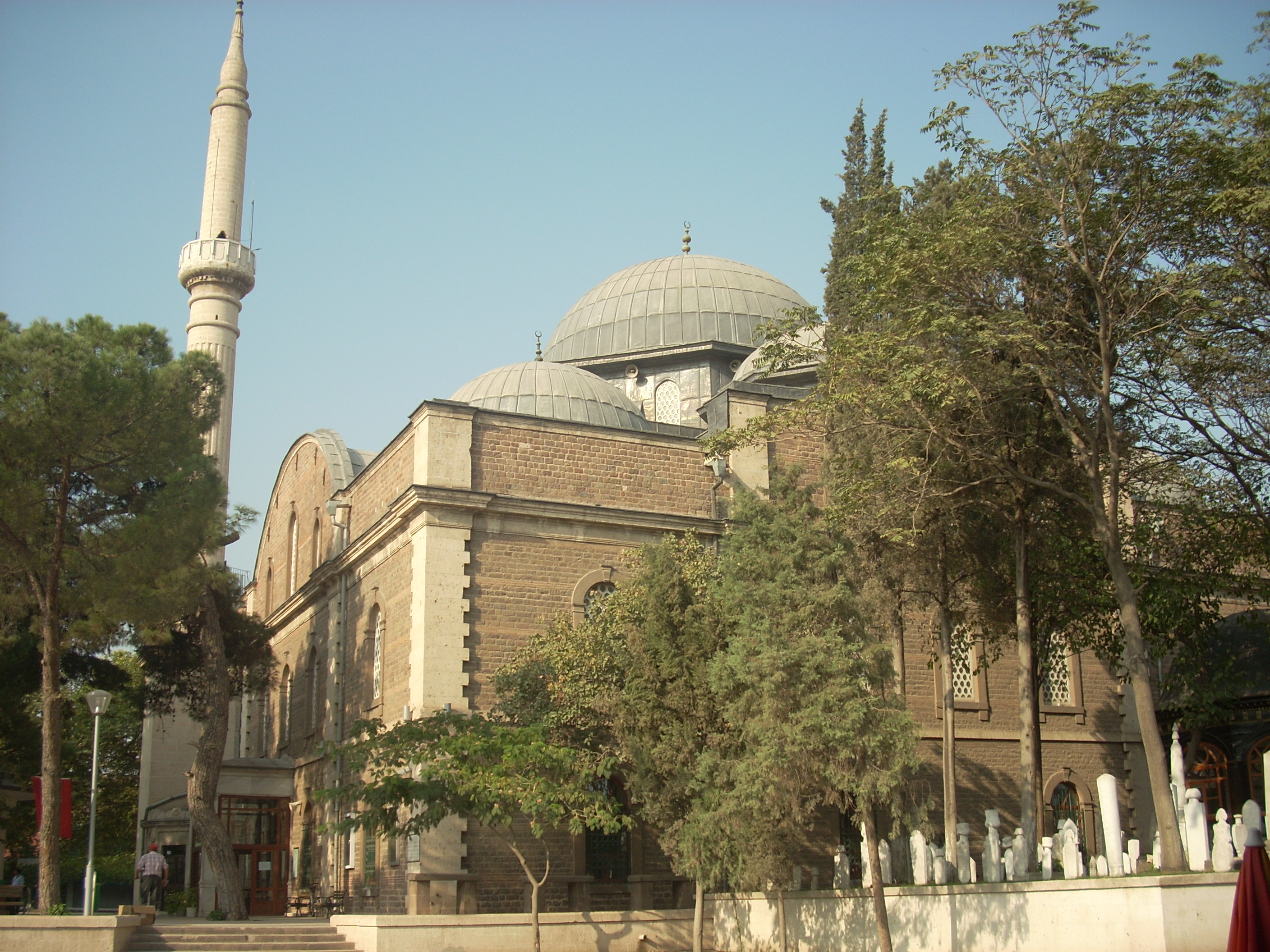 Zağanos Paşa Mosque, Balıkesir.